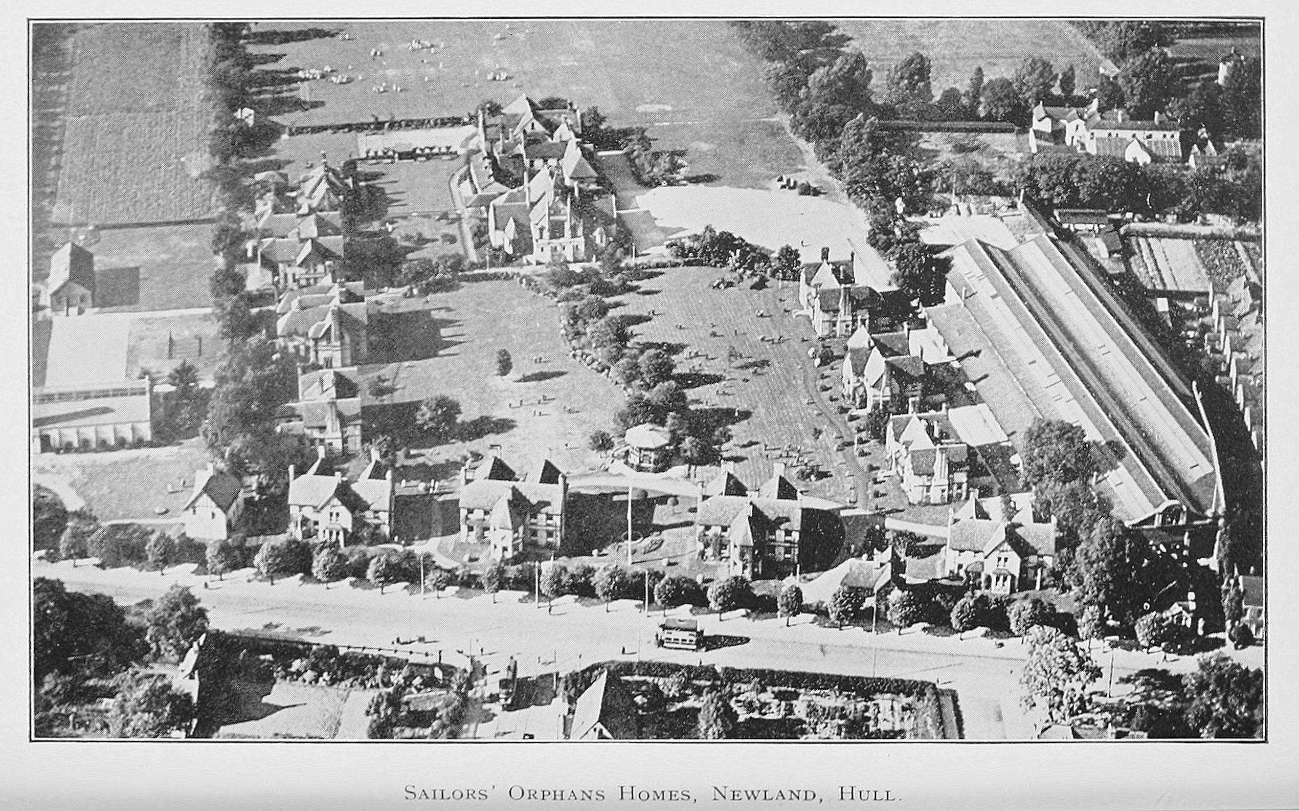 Sailor's Orphan's homes, Cottingham Rd. Hull Long building (right) is tram terminus/shed